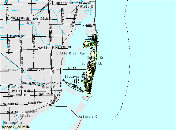 map of Miami Beach, Florida showing city limits